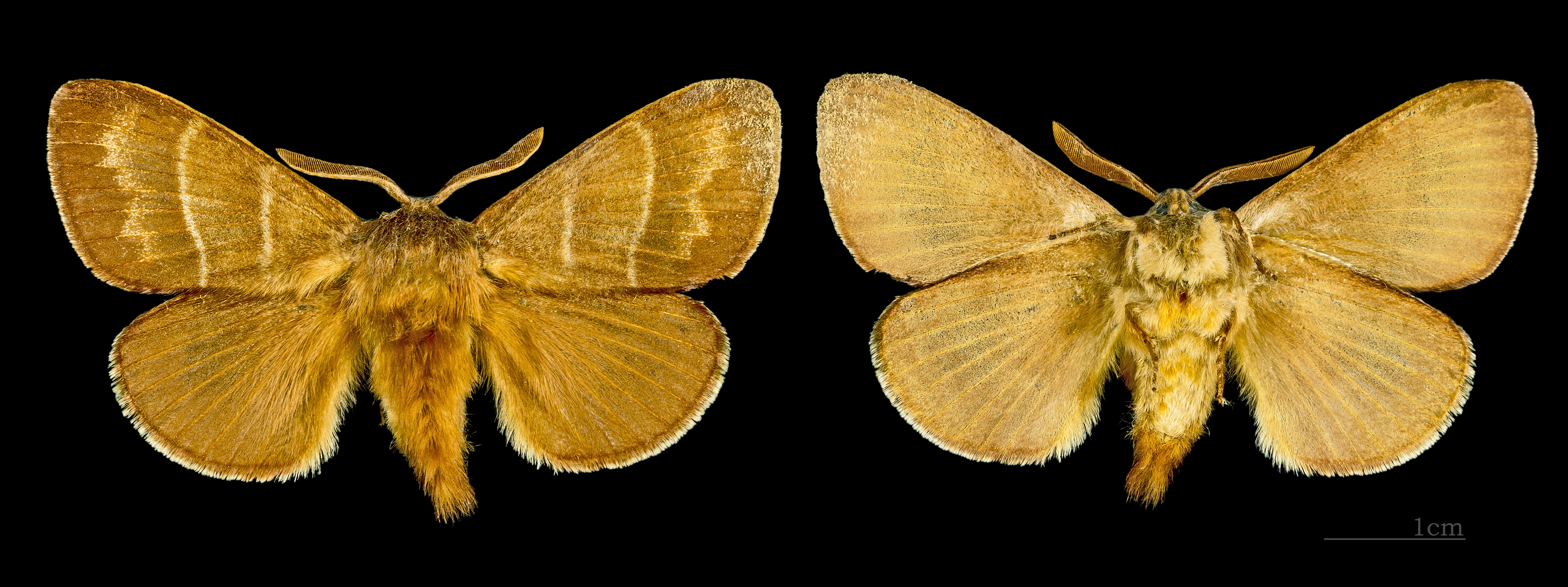 Fox moth - Two views of same specimen